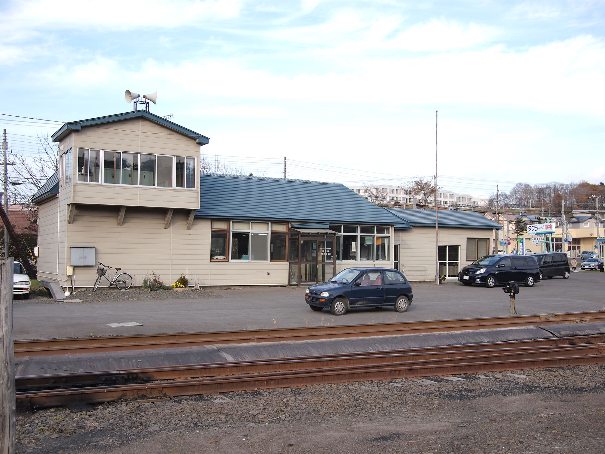 Taiheiyo Coal Services and Transportation Harutori Station, Kushiro, Hokkaido, Japan